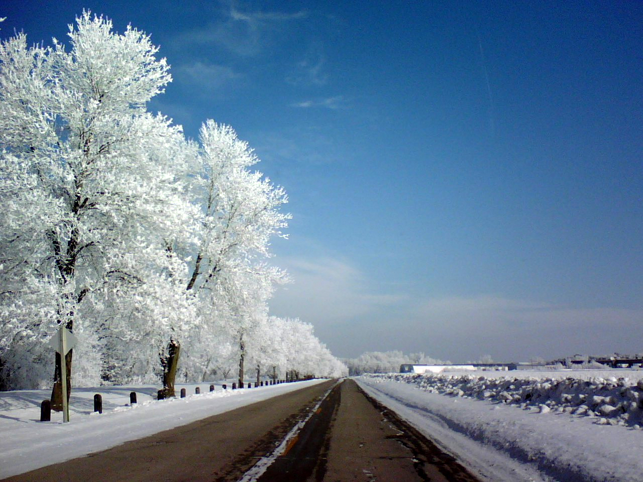 Hoar frost may have different names depending on where it forms. For example, air hoar is a deposit of hoar frost on objects above the surface, such as tree branches, plant stems, and wires.